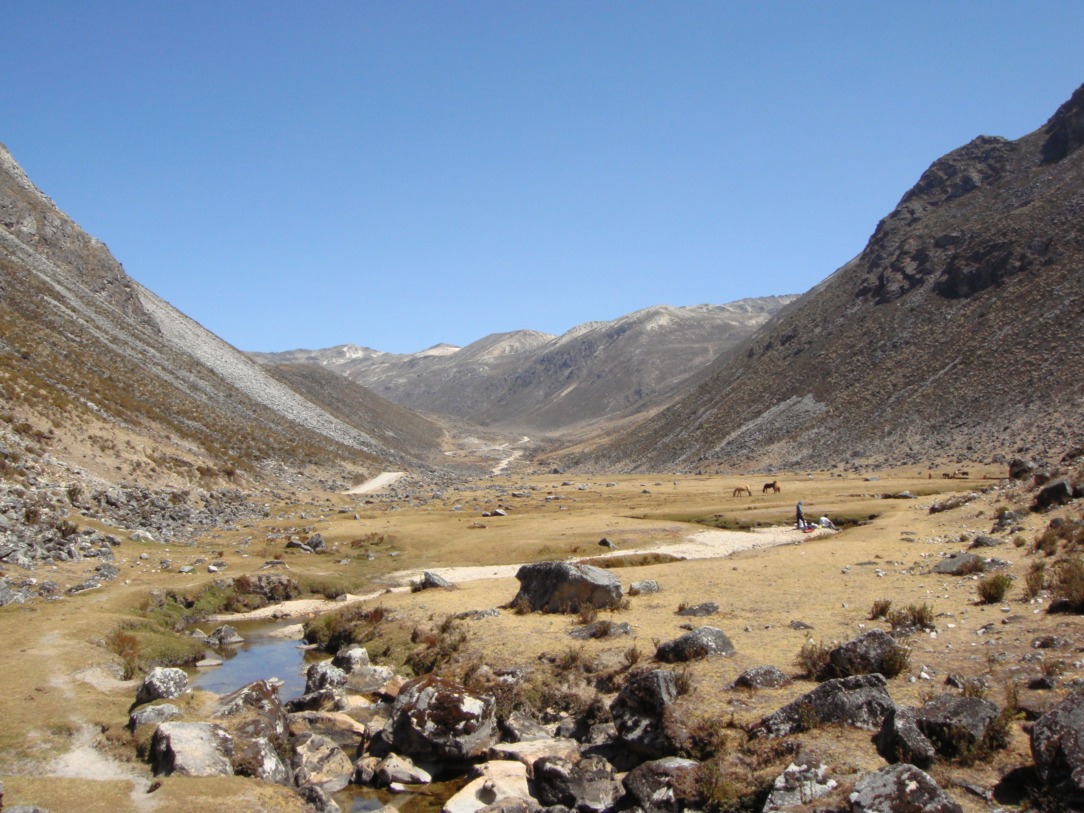 Route to the "Domo" at "Sierra de La Culata" National Park